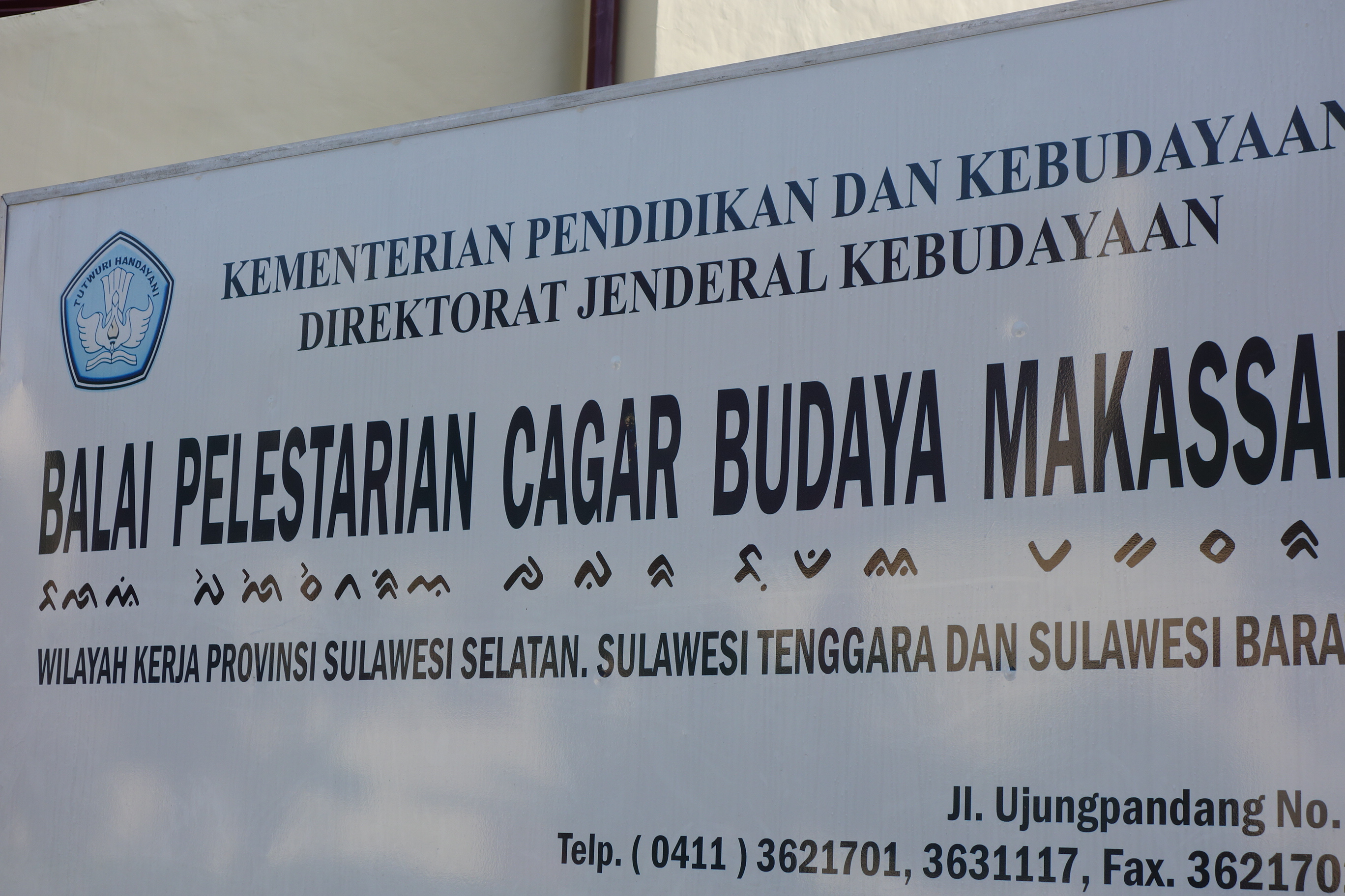 A poster near Makassar with inscription in Lontara alphabet